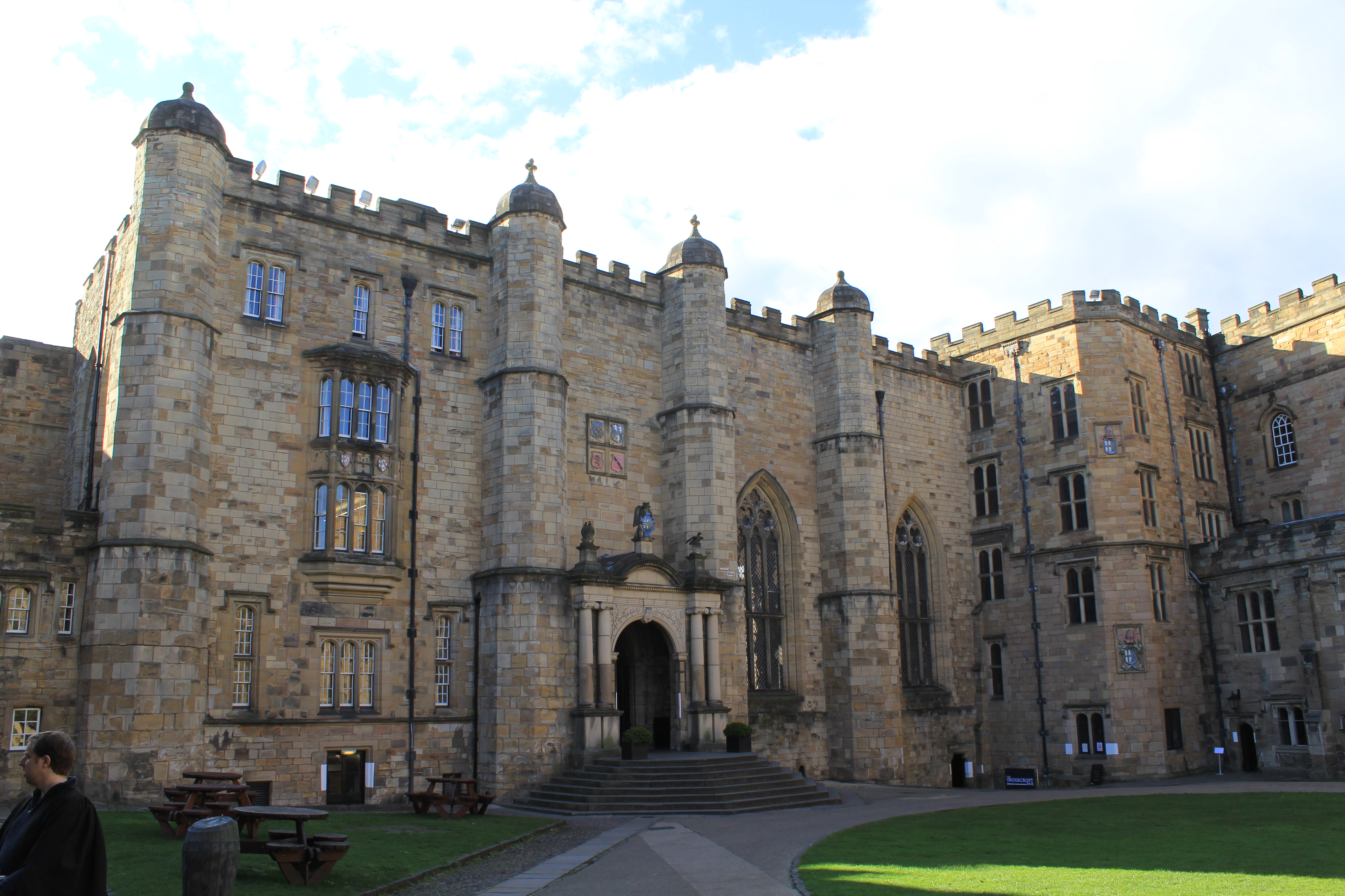 Durham Castle, April 2017 (18) This file was generated using equipment from Wikimedia UK, a Wikimedia local chapter.